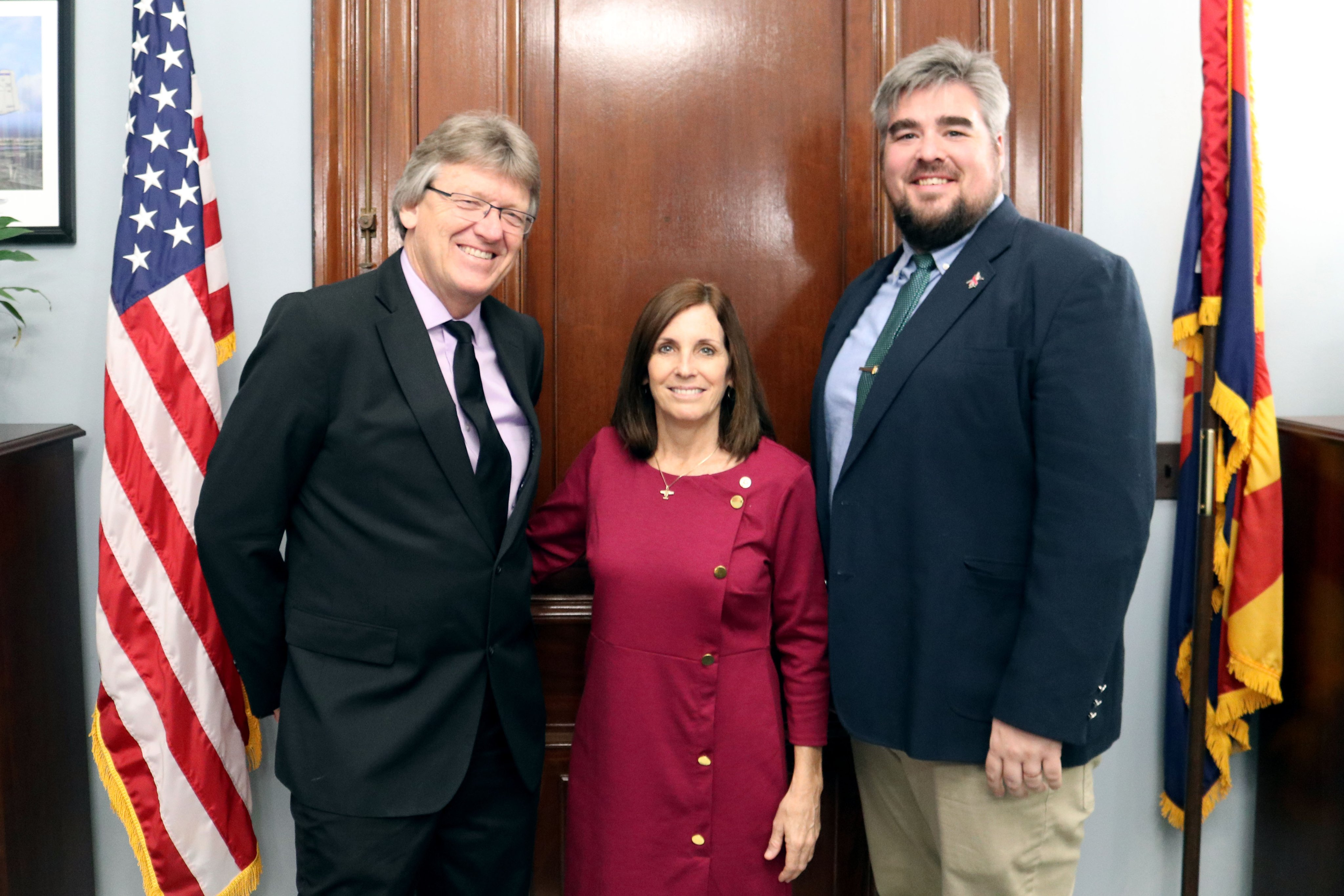 Enjoyed seeing Mayor Sanderson & Vice Mayor Harris of Tusayan today. We agree that the permanent supervisor role at @GrandCanyonNPS needs to be filled ASAP & we’re working to make this happen.